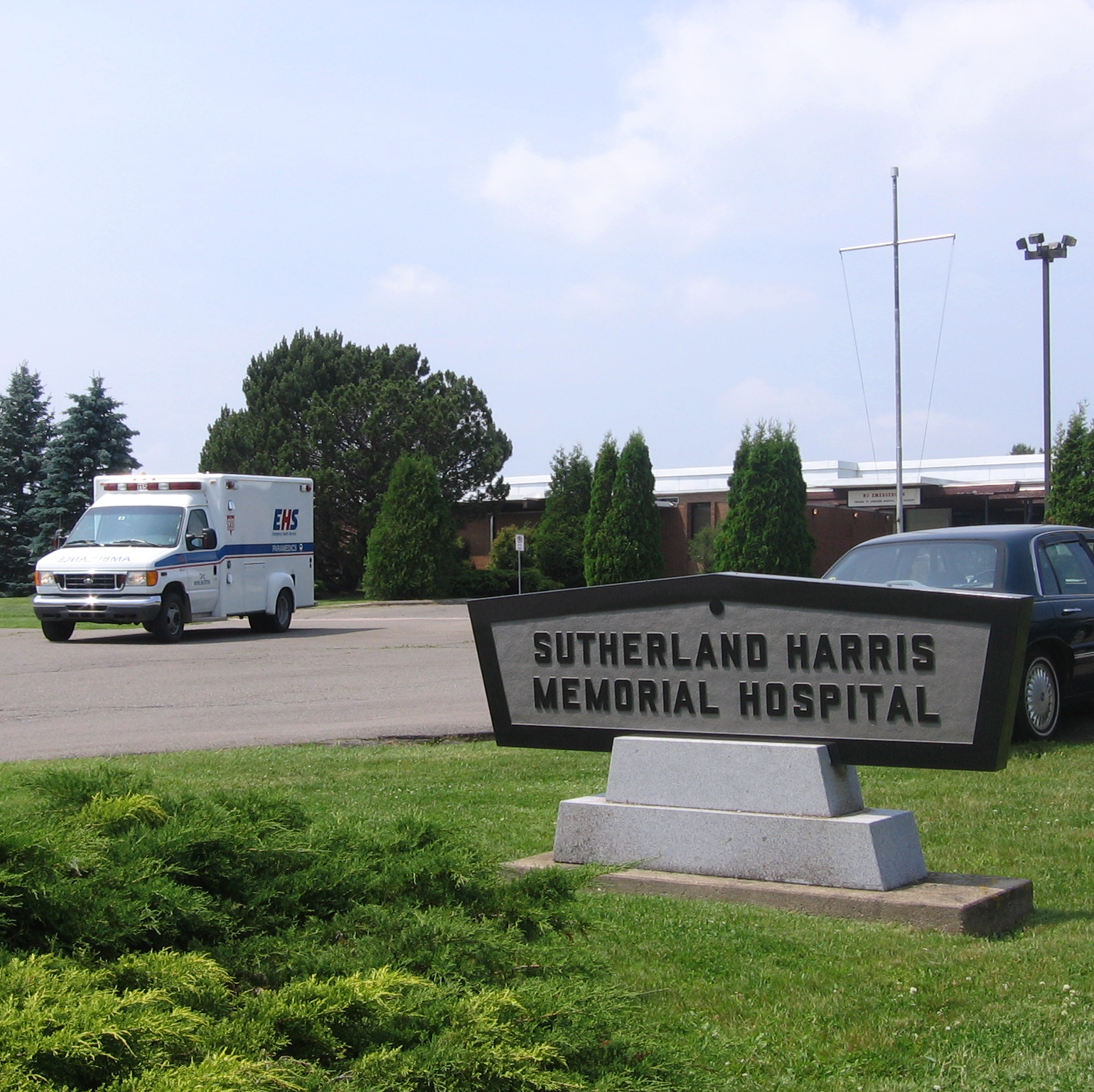 Hospital in Pictou NS to accompany existing article